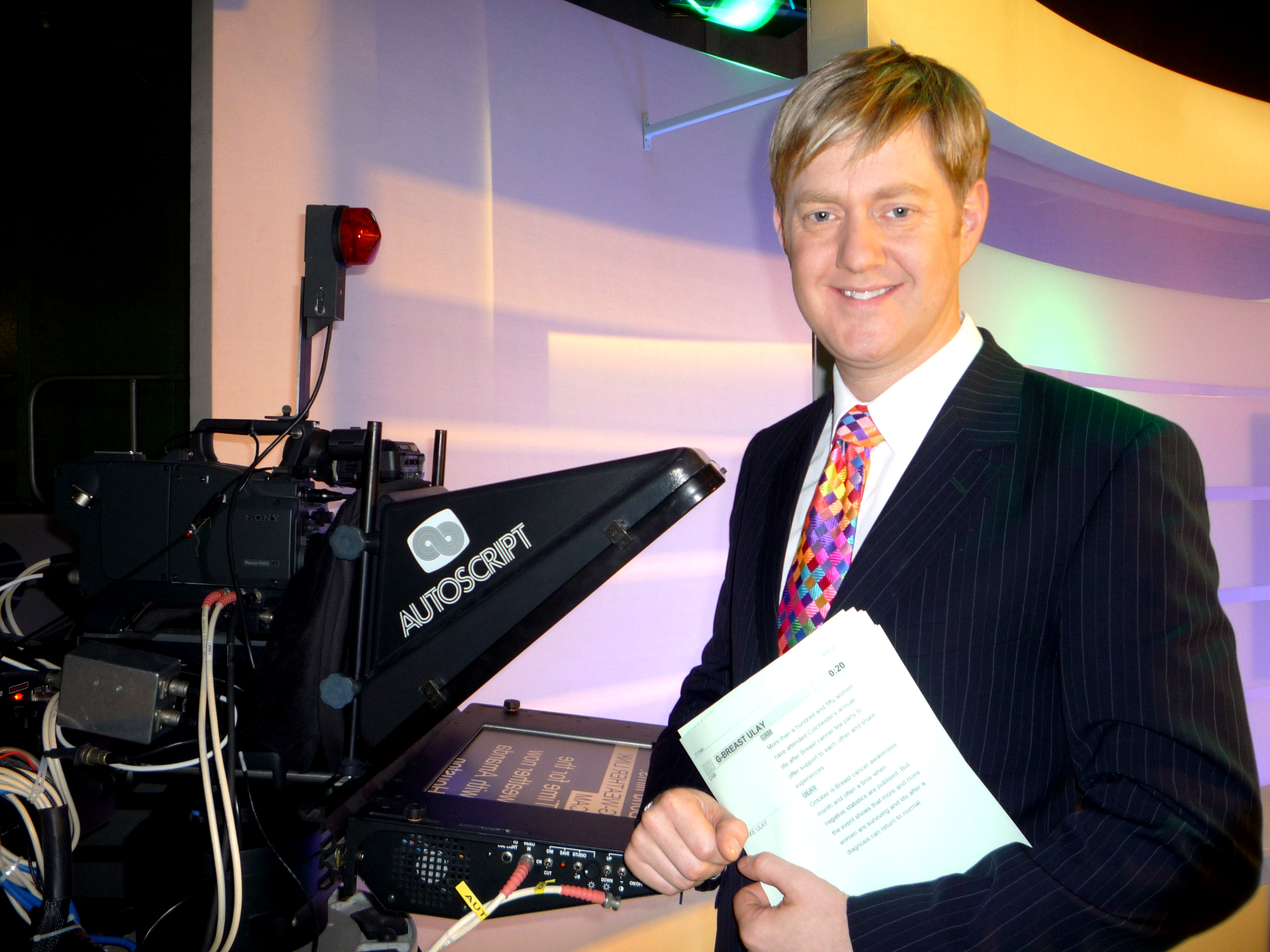 News Presenter Stephen Lee pictured in the ITV studio